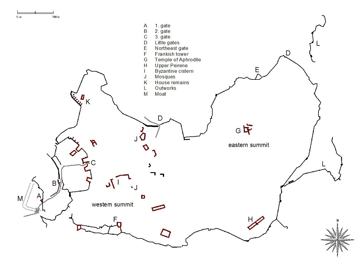 Map of the remains of Acrocorinth (english version)